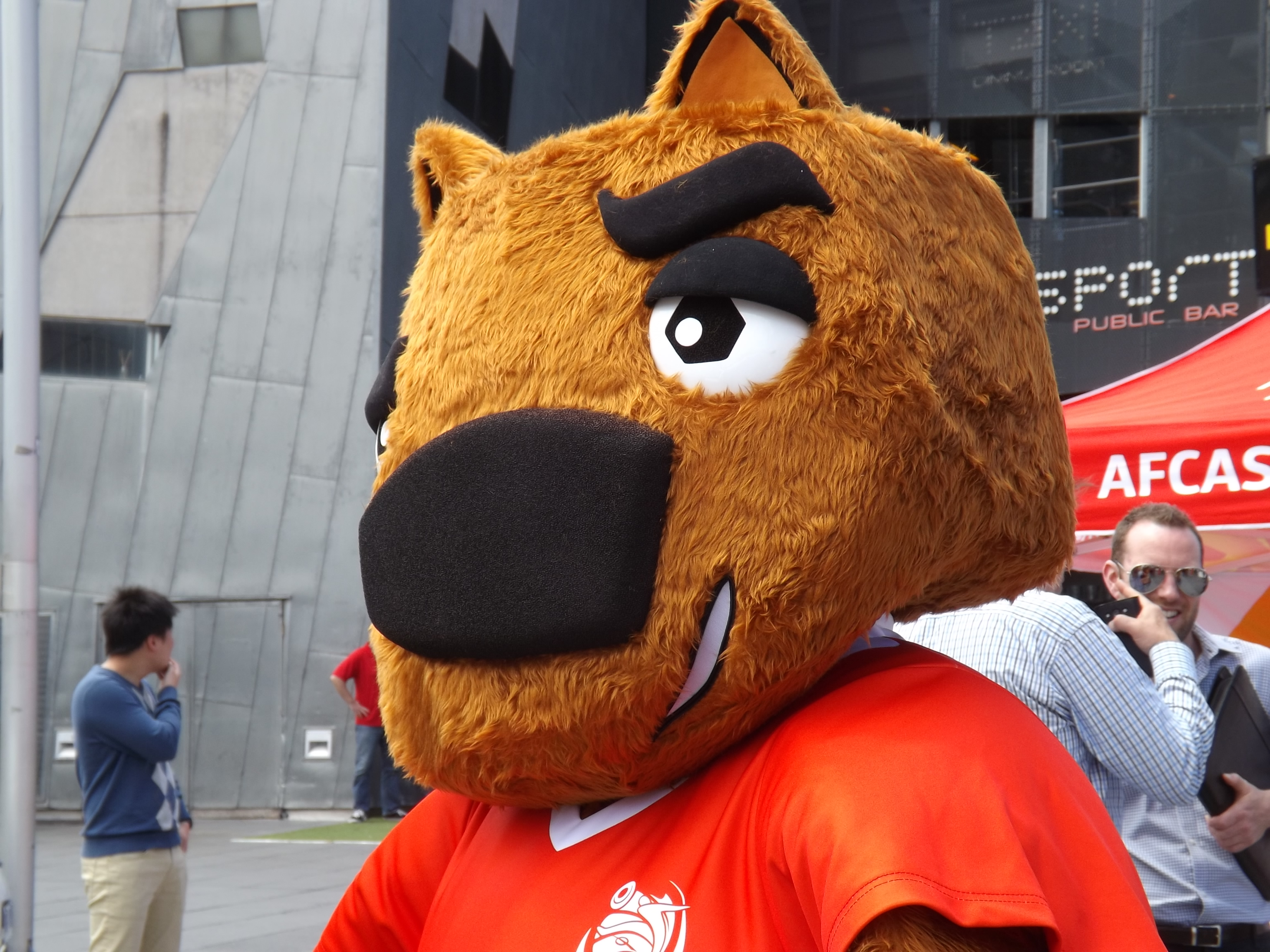 Nutmeg the wombat, mascot of the 2015 AFC Asian Cup, on tour with the cup at Federation Square.